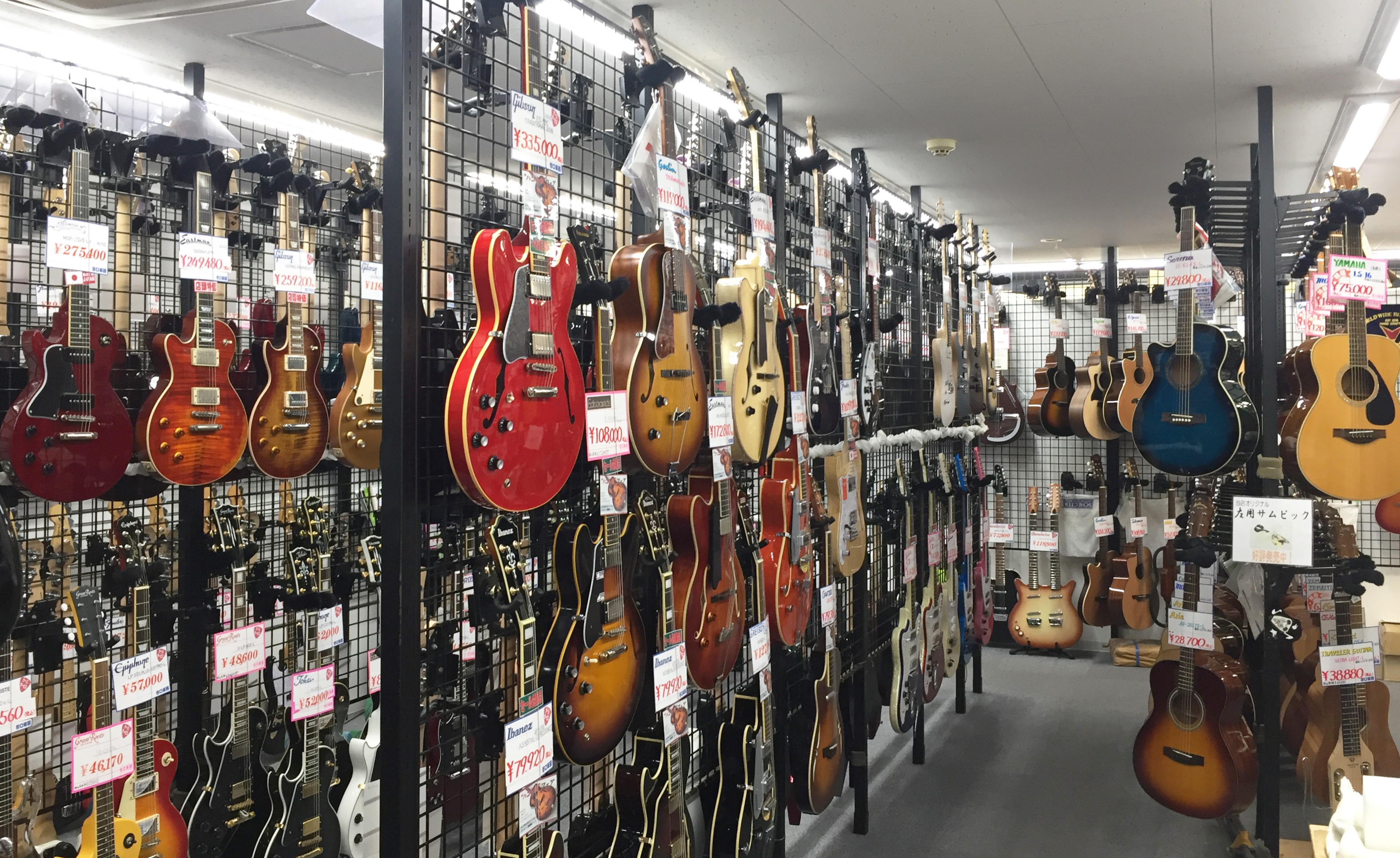 I took this photo at Taniguchi Gakki (Taniguchi's Musical Instrument Shop), Ochanomizu, Tokyo, Japan.